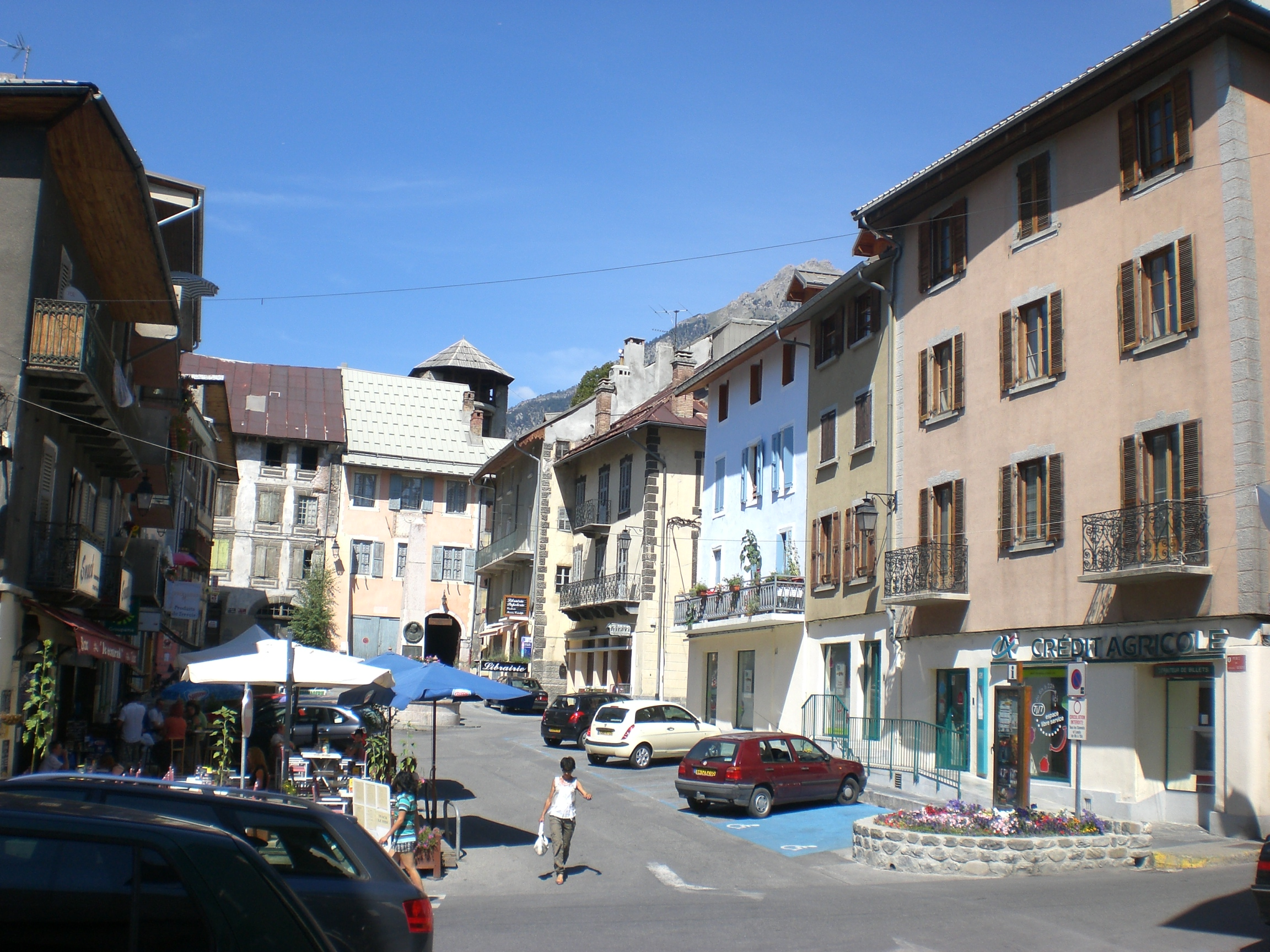 place albert